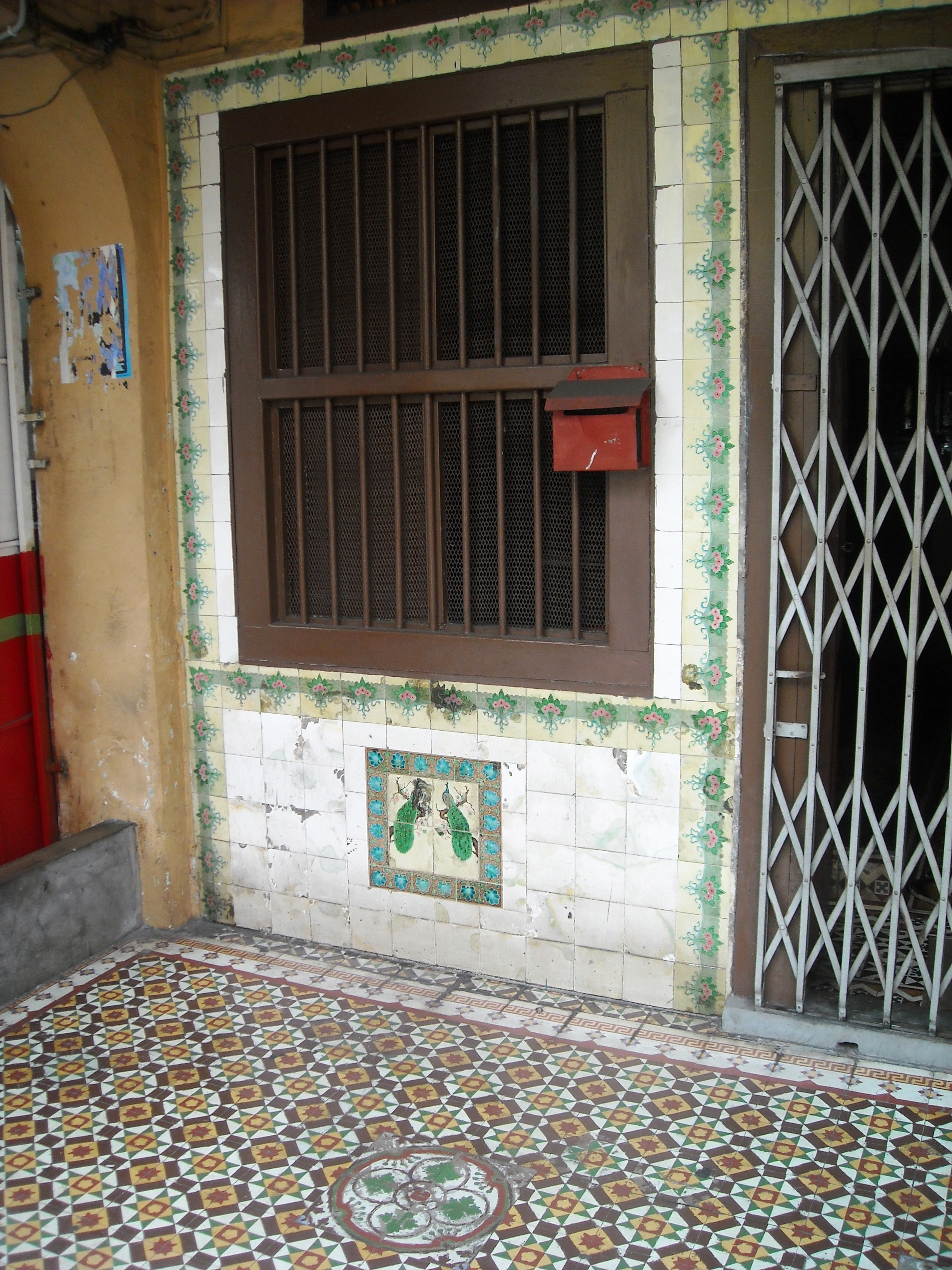 Indian Chettiar House